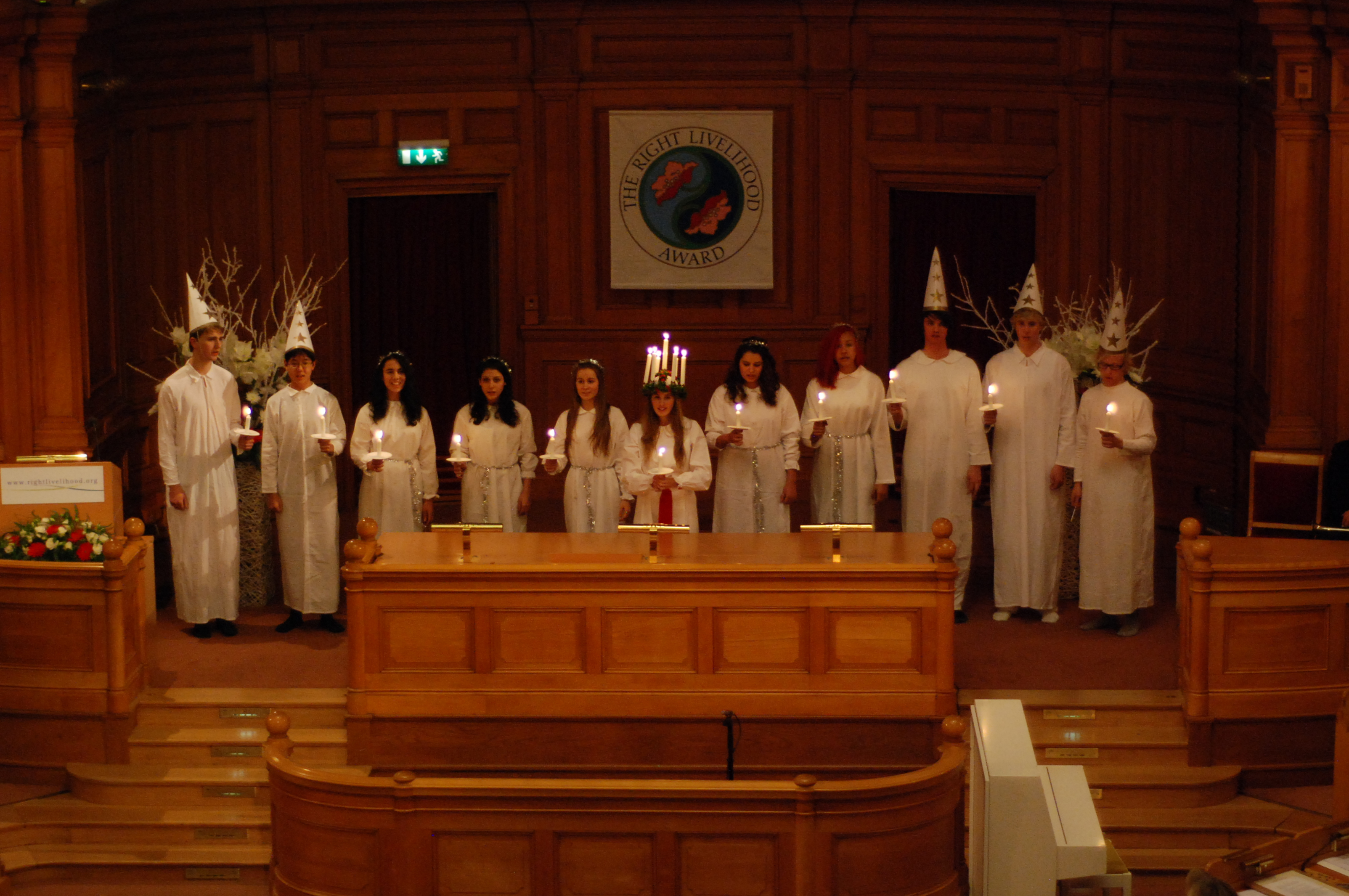 Award Ceremnony of the 30th Right Livelihood Award 2009: St. Lucia procession